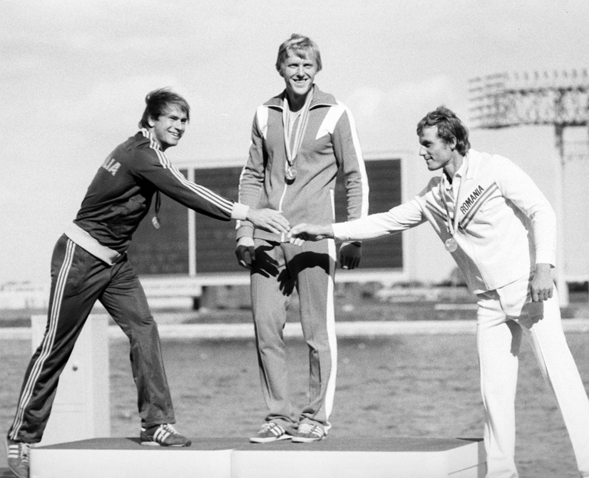 “Winners of 1980 Olympiad in rowing and canoeing (single sculls)”. Winners of the XXII Summer Olympic Games (July 19 - August 3, 1980) in rowing and canoeing, single sculls: 1st place - V. Parfenovich (USSR), 2nd place - J. Sumegi (Australia), 3rd place - V. Dyba (Romania).